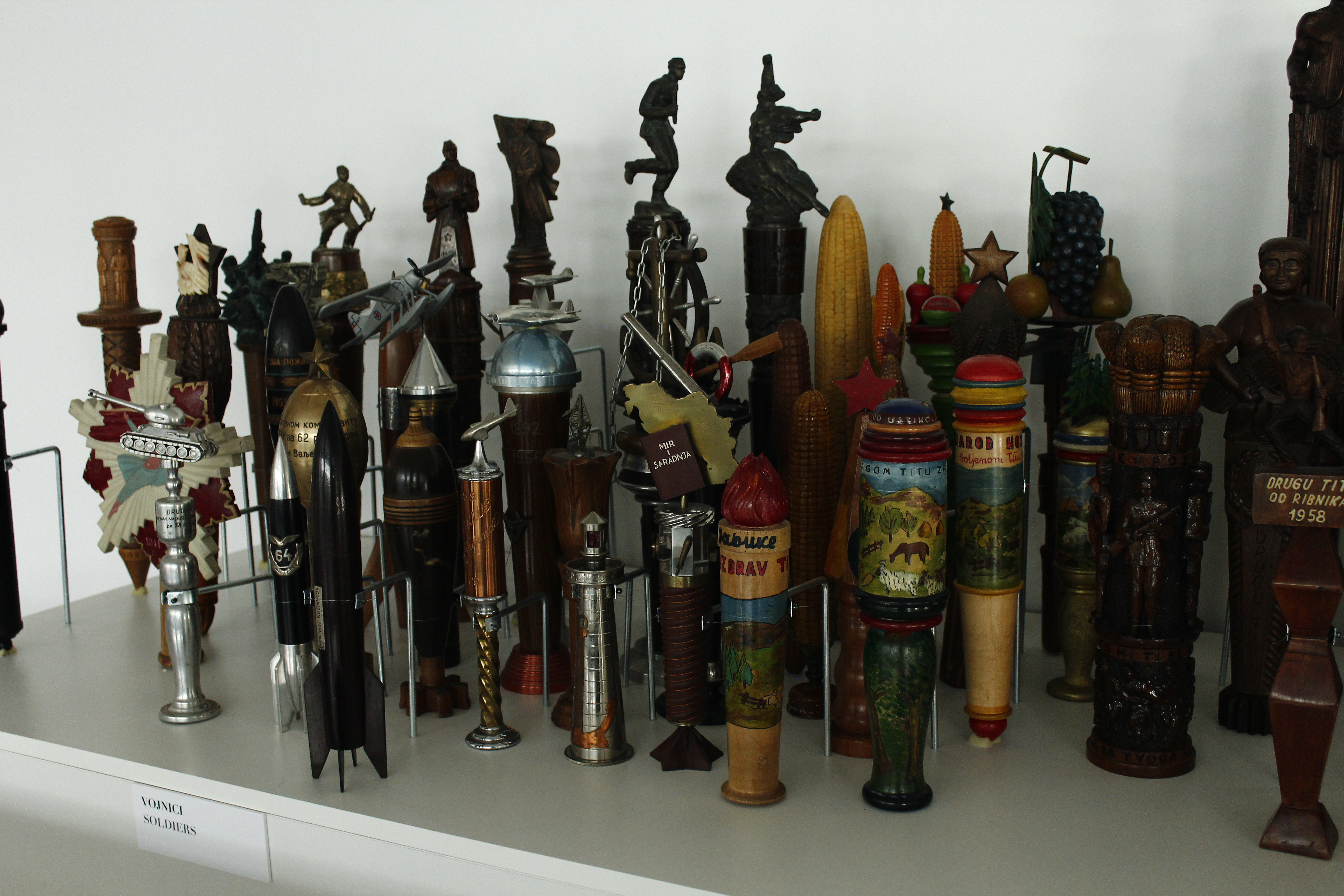 Batons sent by various organizations and groups to Marshall Tito at his mausoleum, Belgrade.